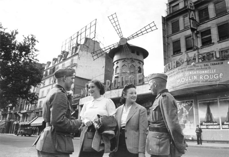 Title: Paris, deutsche Soldaten vor dem Moulin Rouge Extra information: Frankreich, Paris.- Zwei deutsche Soldaten mit zwei Frauen vor dem Moulin Rouge; PK 689 Factual corrections and alternative descriptions are encouraged separately from the original description. Additionally errors can be reported at this page to inform the Bundesarchiv. Original historic description